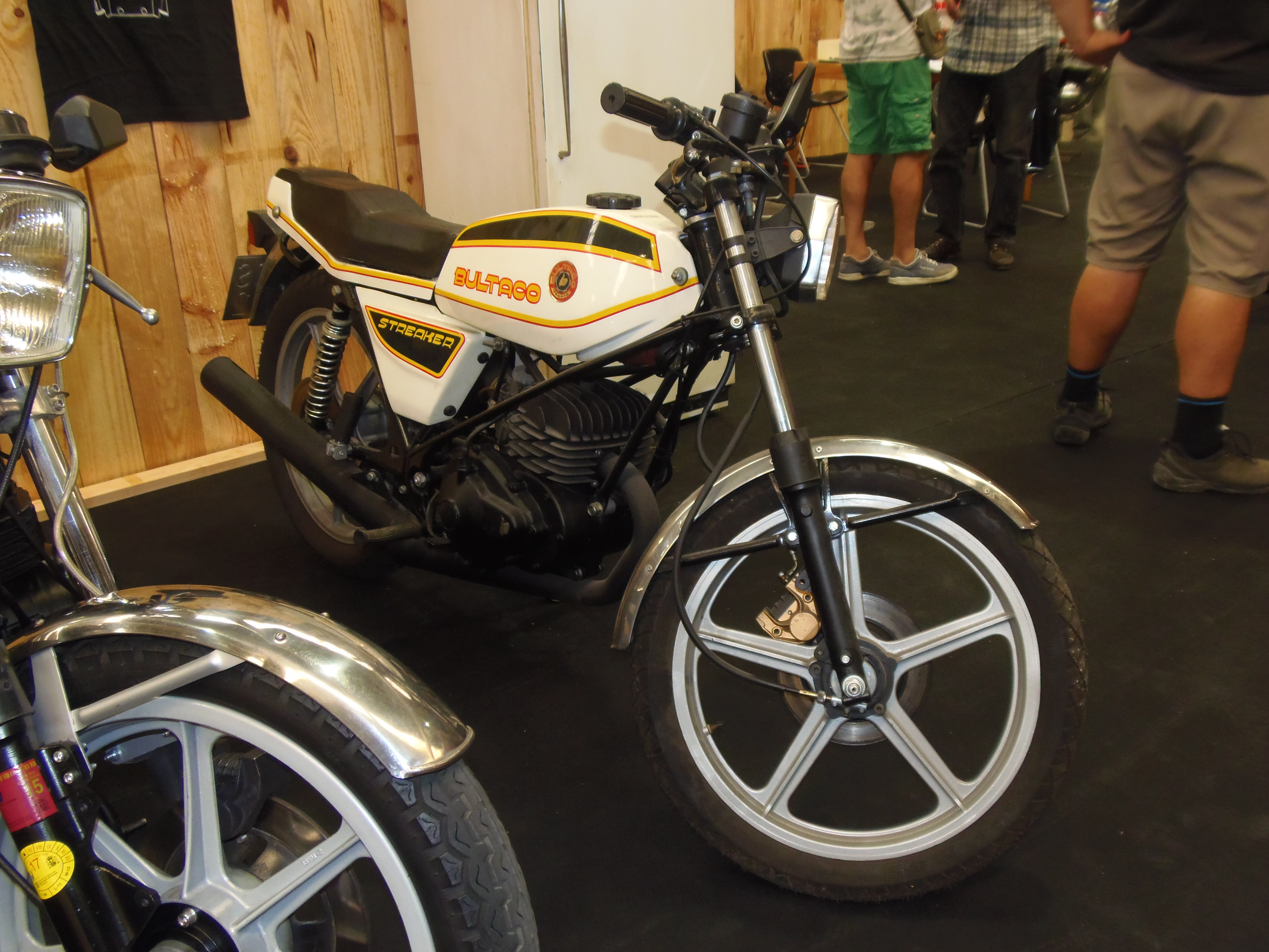 Bultaco Streaker 125 (aka 118), 1979